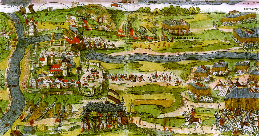 Siege of Polotsk in 1579 by Polish forces